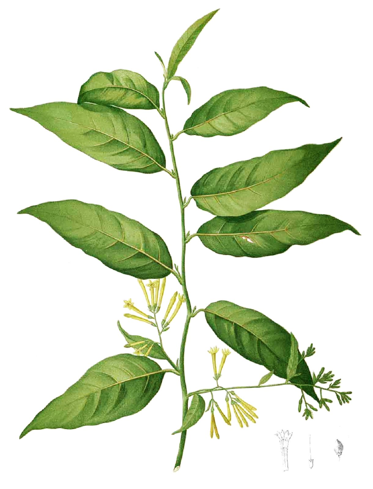 Plate from book